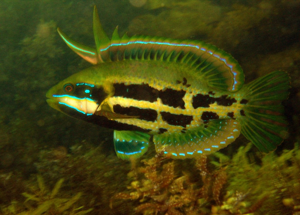 A male Rainbow Cale (Heteroscarus acroptilus) in breeding colouration. Fairy Bower, Manly, NSW